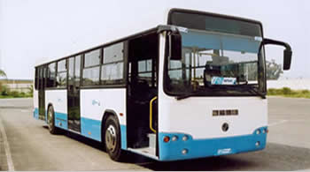 SNVI Bus 100v8